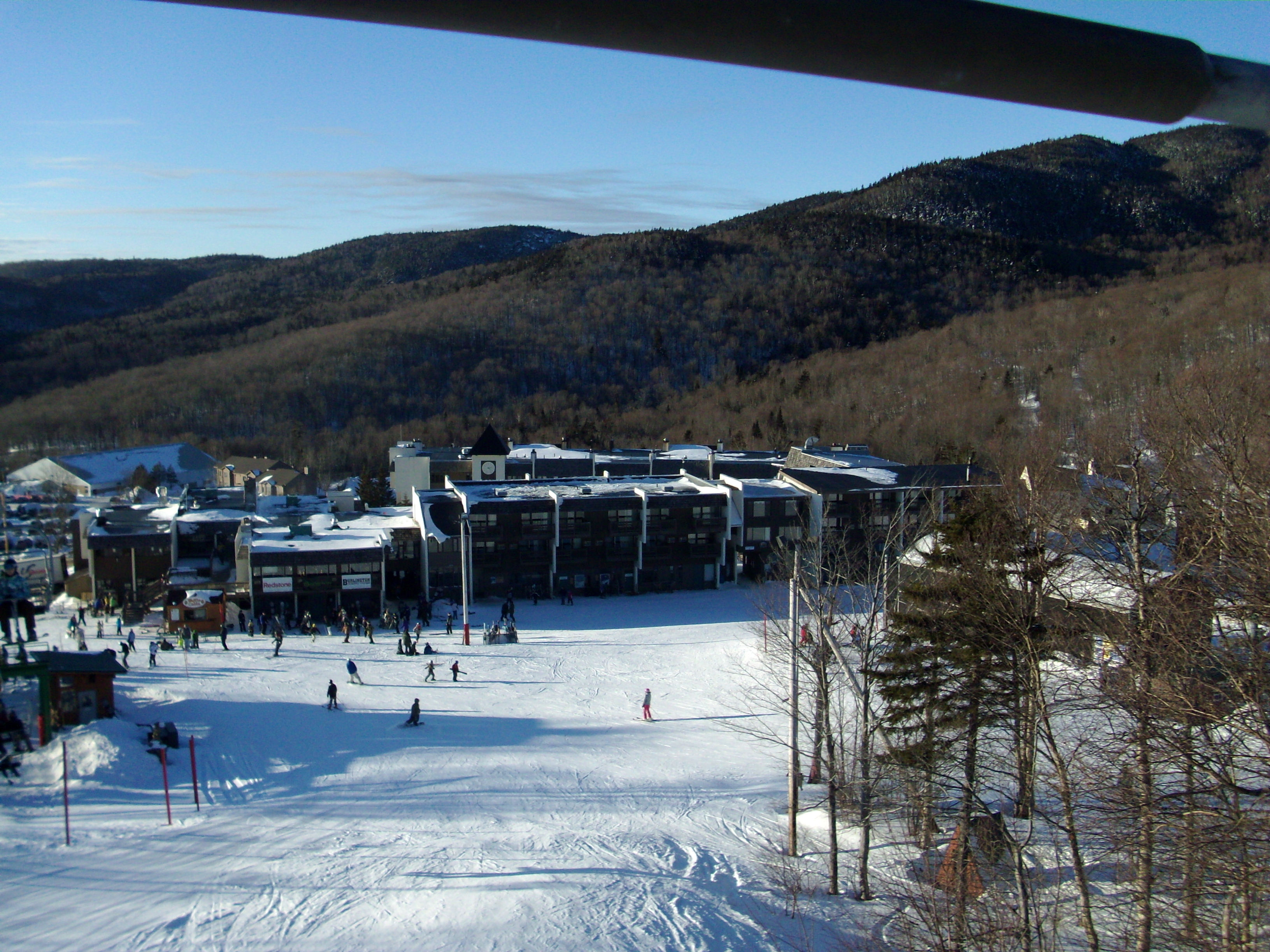 The Bolton Valley Ski Resort Lodge. Picture taken from the lift. Photo taken on February 12, 2010.